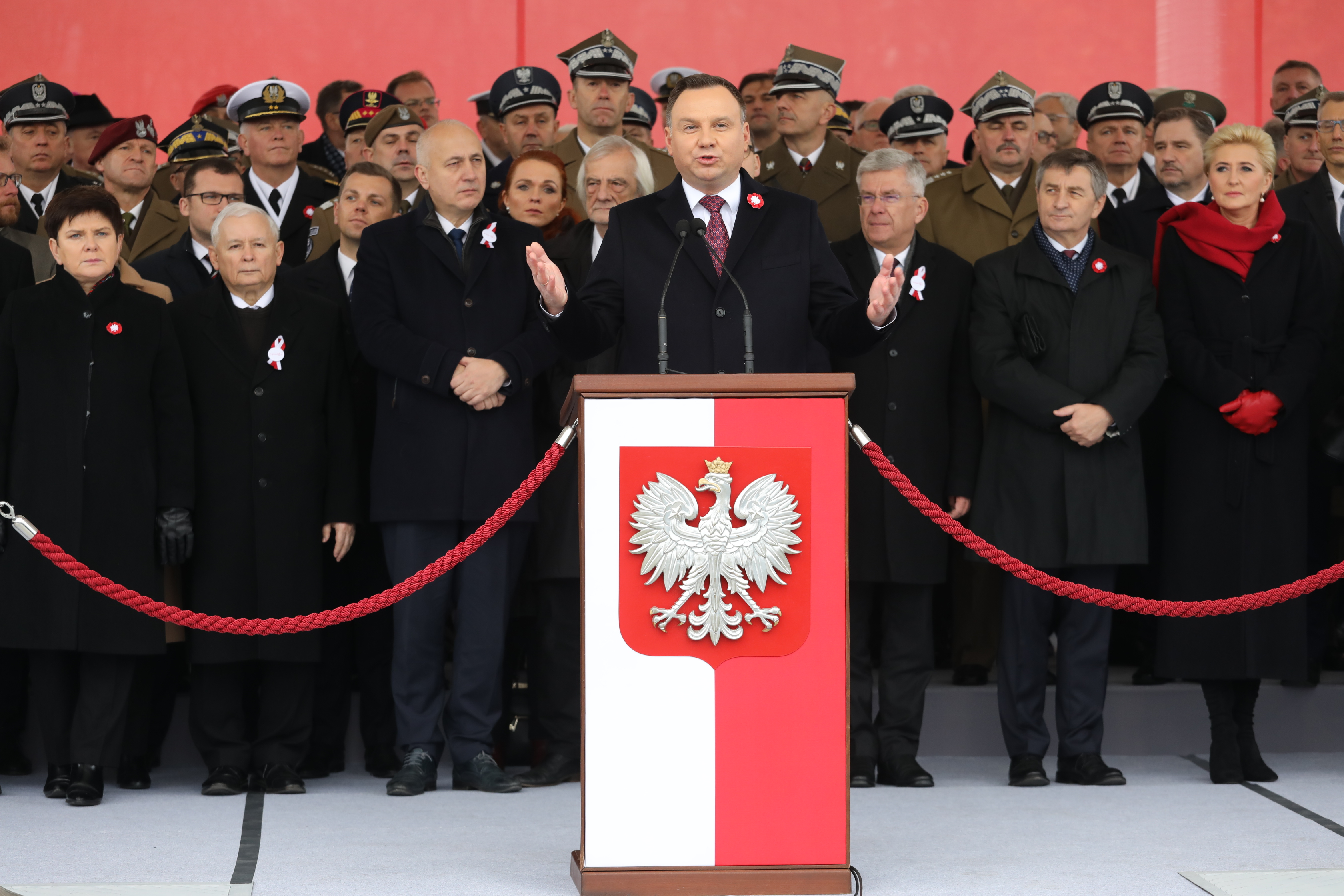 The 100th Anniversary of Poland's Independence.